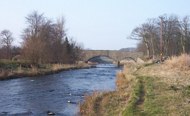 Bridge across the river Ugie at Inverugie, Aberdeenshire